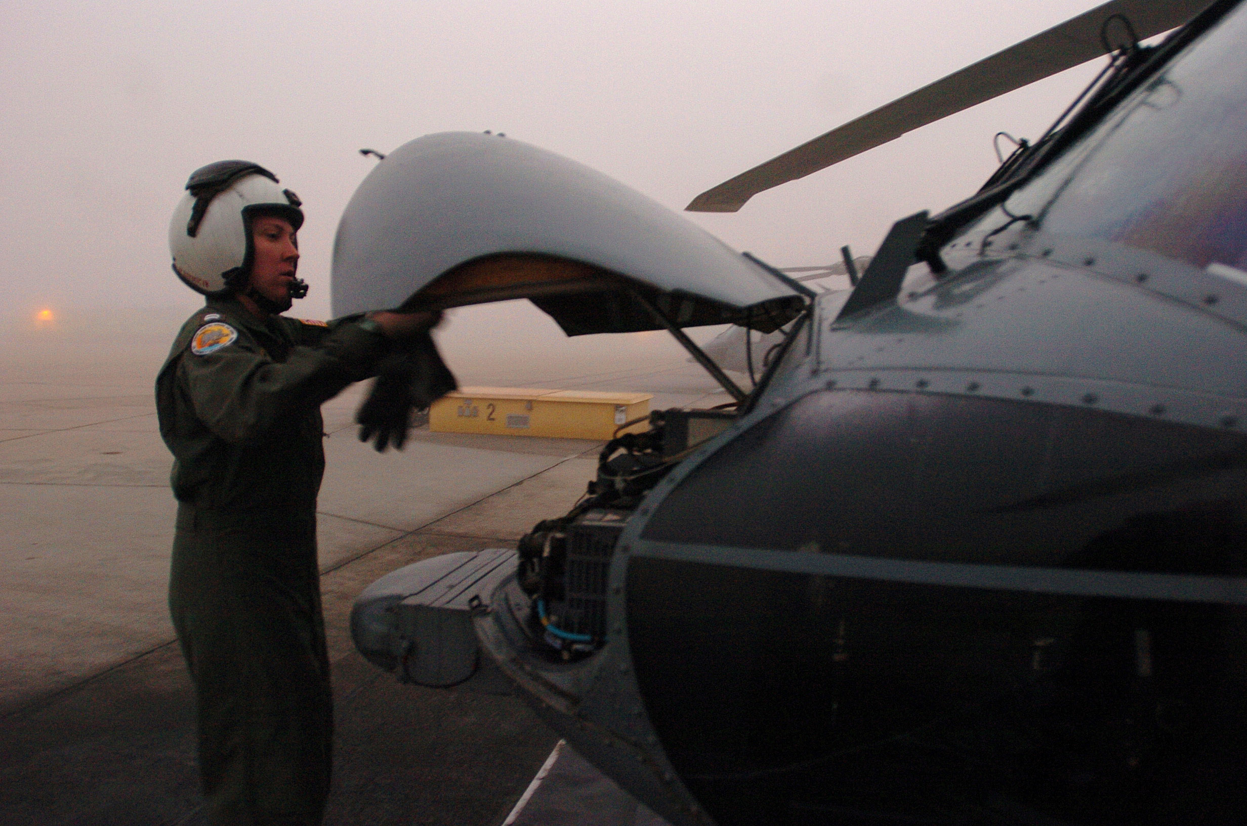 San Diego (Jan. 13, 2006) - Lt. Jessica Parker, a MH-60S Seahawk helicopter pilot, assigned the “Black Jacks” of Helicopter Sea Combat Squadron Two One (HSC-21), conducts a pre-flight check on the flight line on board Naval Air Station North Island, prior to flying out to the amphibious assault ship USS Peleliu (LHA 5). Peleliu and Expeditionary Strike Group Three (ESG-3) are underway off the coast of Southern California conducting their Joint Task Force Exercise (JTFEX). U.S. Navy photo by Journalist 2nd Class Zack Baddorf (RELEASED)